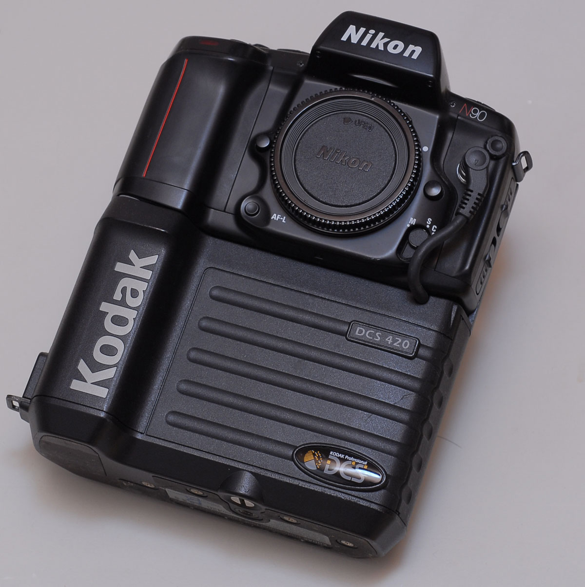 Kodak digital back system model "DCS 420". base camera is Nikon N90(F90s/x)